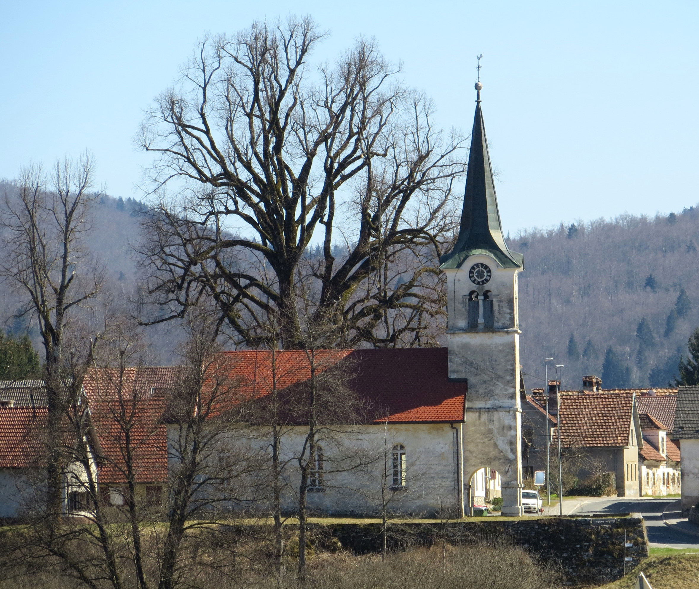 Saint James' Church in Pudob, Municipality of Loška Dolina, Slovenia